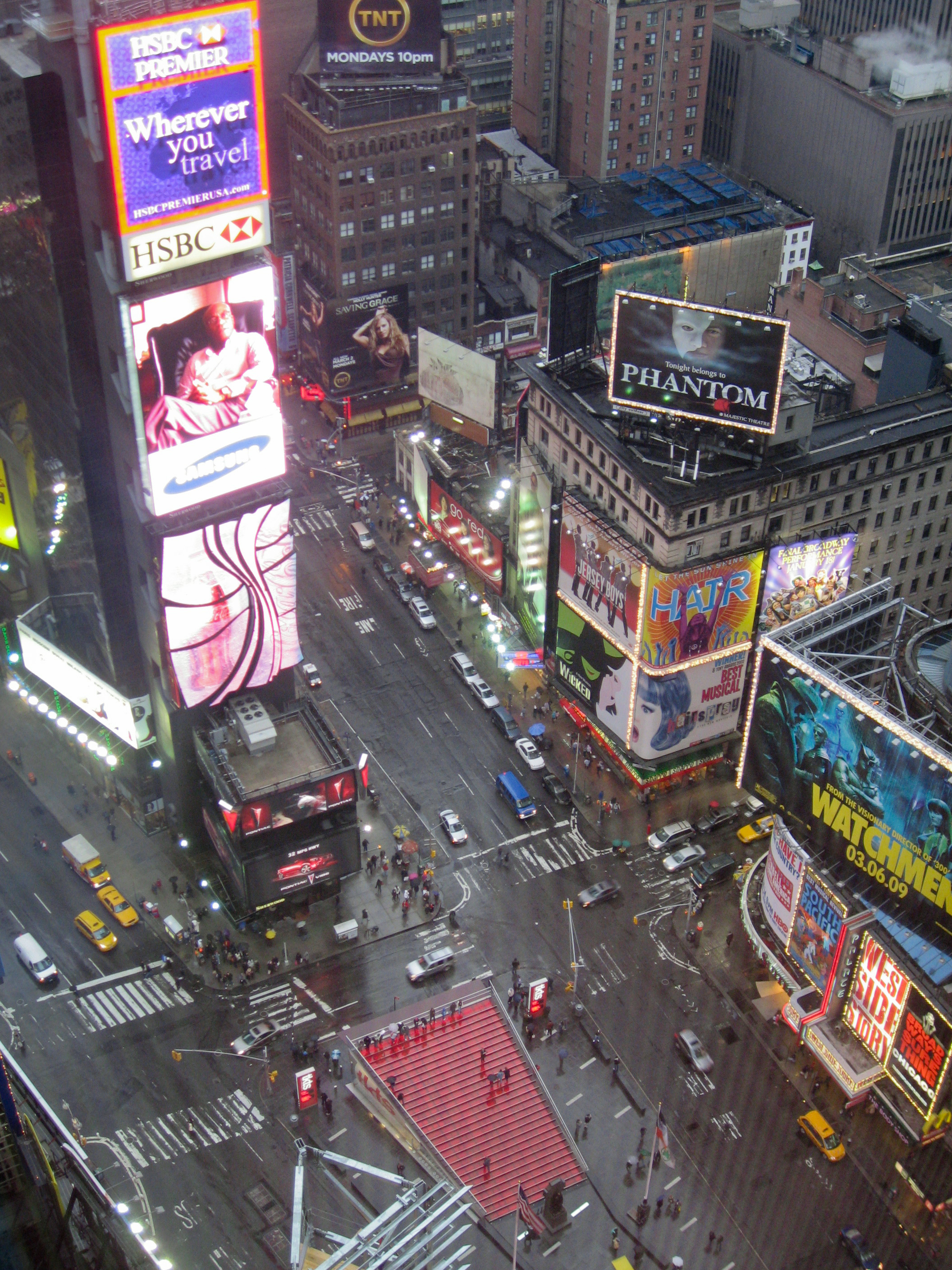 Times Square in New York City at night